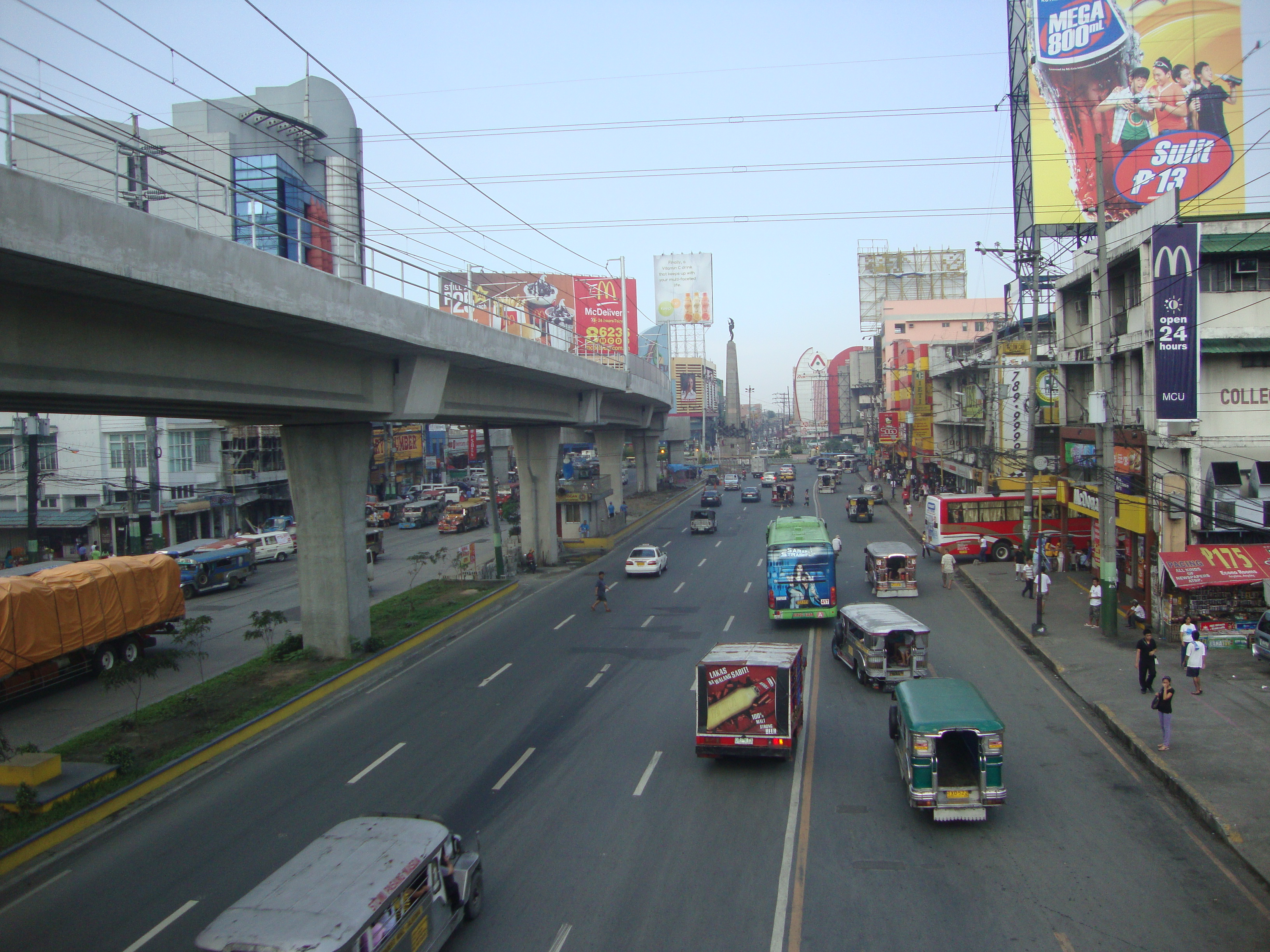 North end of Edsa in Caloocan City